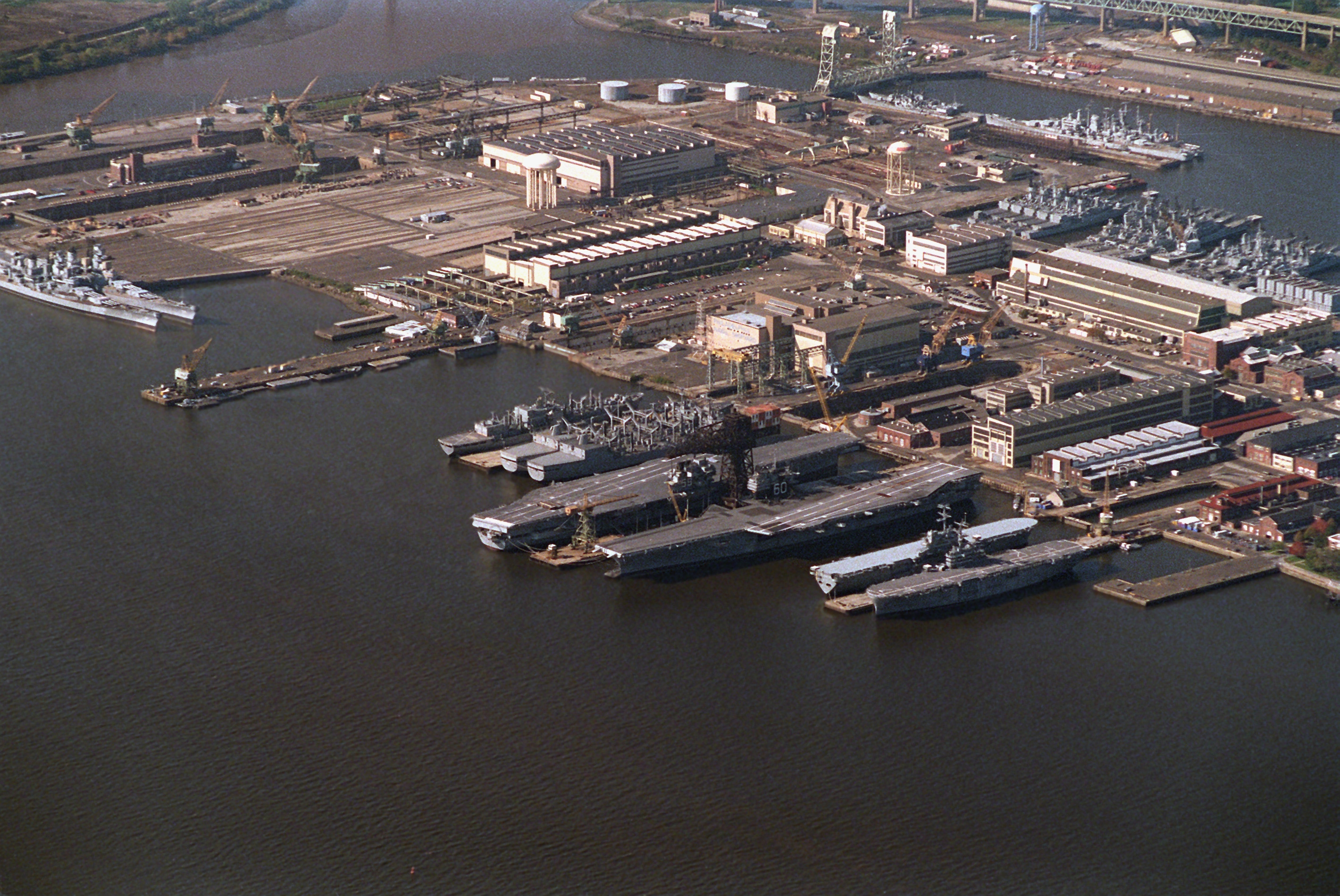 An aerial view of the Philadelphia Naval Shipyard looking west/northwest on 30 October 1995. The shipyard closed on 30 September 1995, but the Navy Intermediate Ship Maintenance Facility (NISMF) continued to store decommissioned and mothballed ships. Vessels visible, left to right: the battleships USS Iowa (BB-61), and USS Wisconsin (BB-64) at the DD wharf; naval auxiliaries USS Sylvania (AFS-2), USS Milwaukee (AOR-2) and USS Savannah (AOR-4) at pier 5; the aircraft carriers USS Forrestal (CV-59) and USS Saratoga (CV-60); at pier 4; the amphibious assault ships USS Iwo Jima (LPH-2) and USS Guadalcanal (LPH-7) at pier 2. In the back pool is the heavy cruiser USS Des Moines (CA-134) and numerous destroyers and frigates.